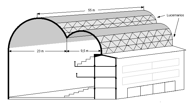 Sketch of the missing "Recoletos Fronton" of Madrid